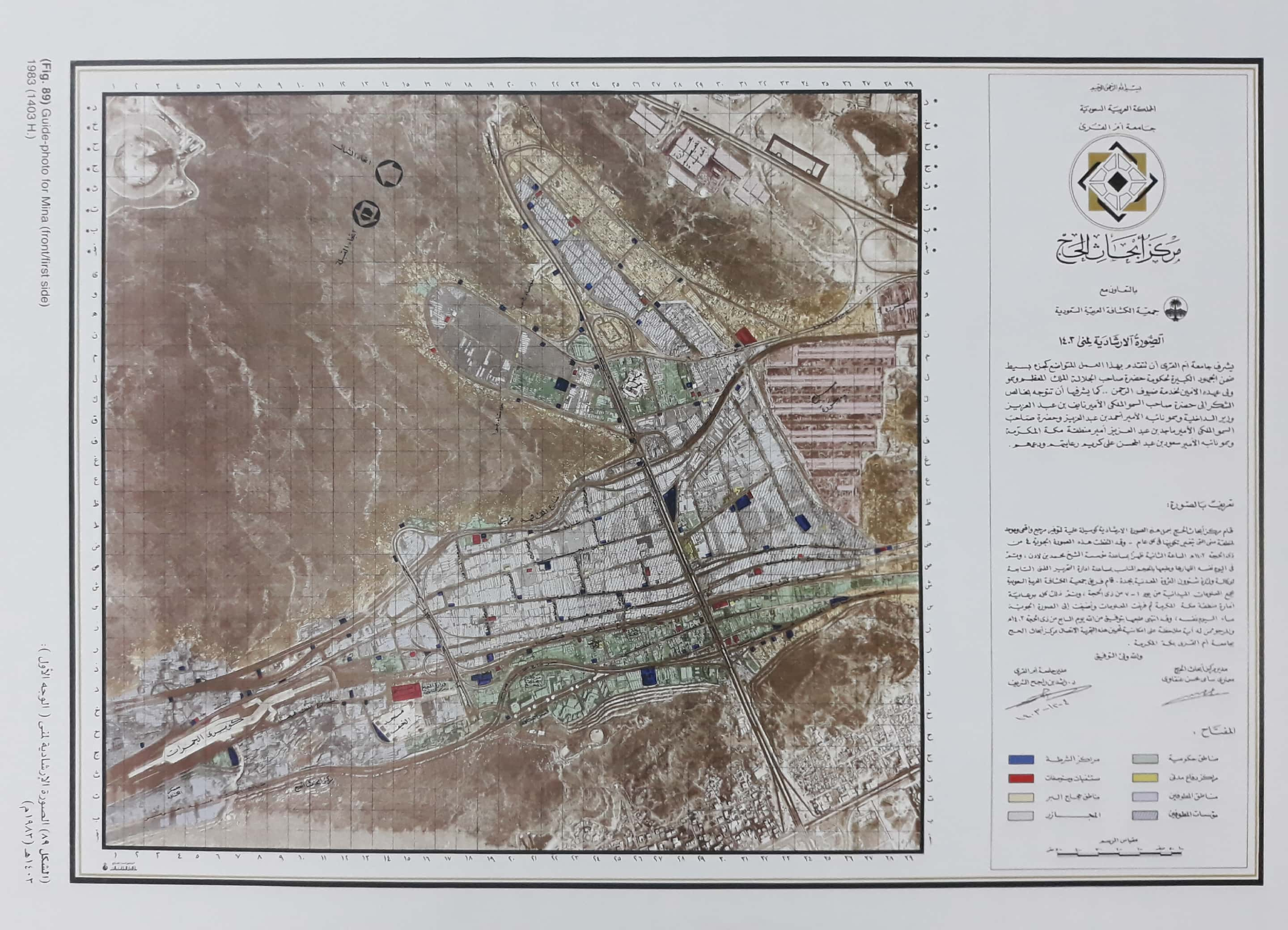 Guide-Photo for Mina (Front/first side) 1983 (1403 H.).